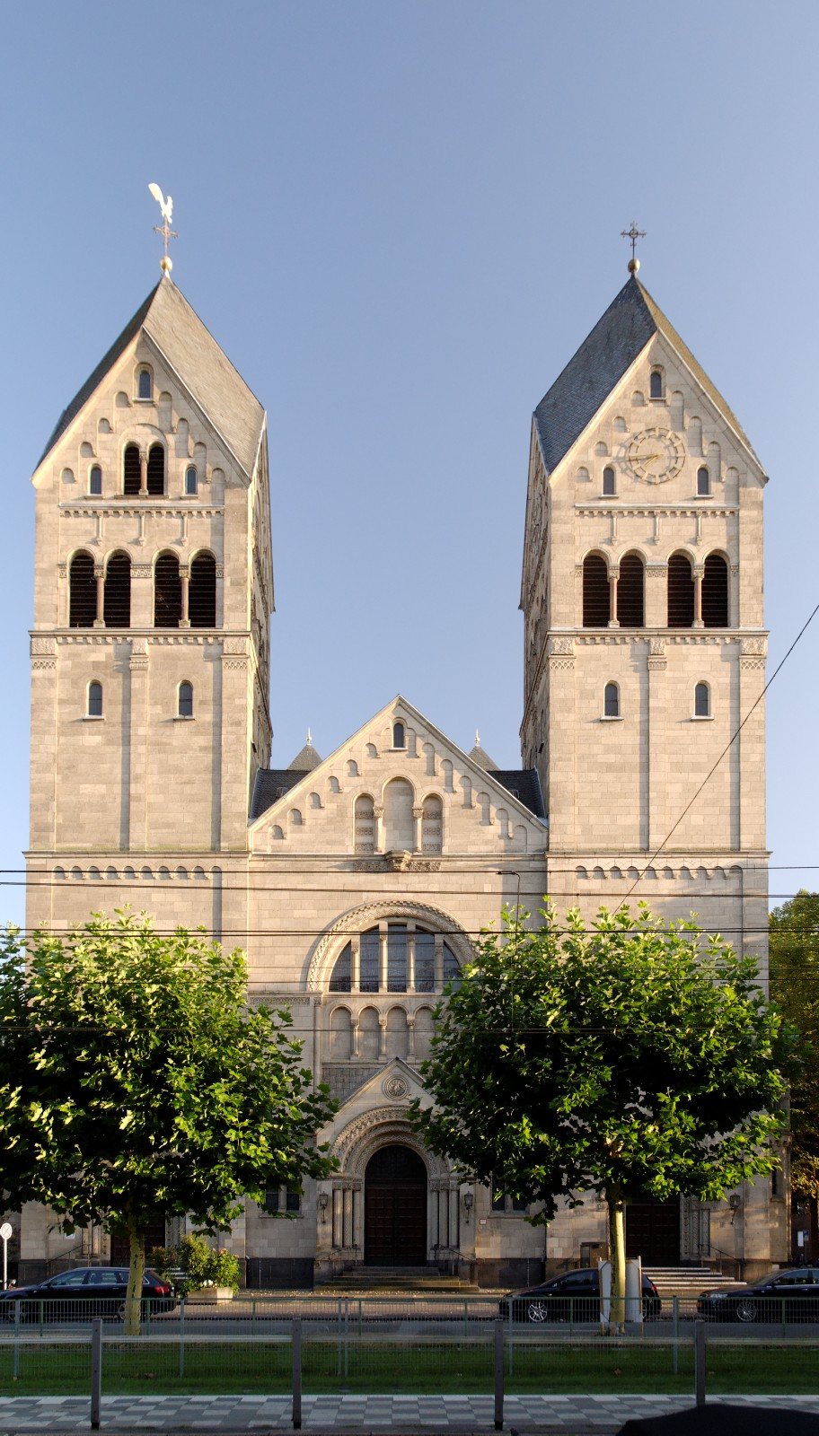 Saint Anthony in Düsseldorf-Oberkassel, Germany